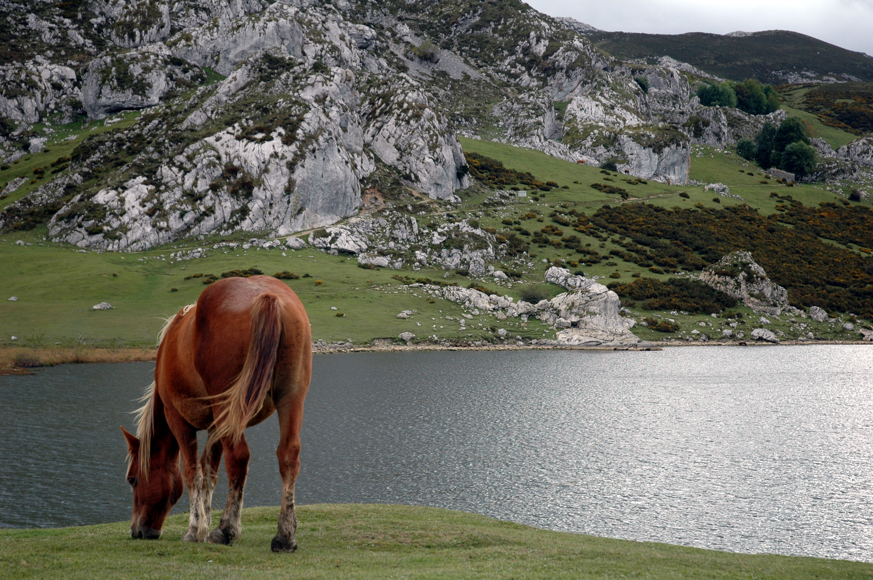 A horse eats grass beside Ercina Lake (Covadonga - Asturias - Spain)